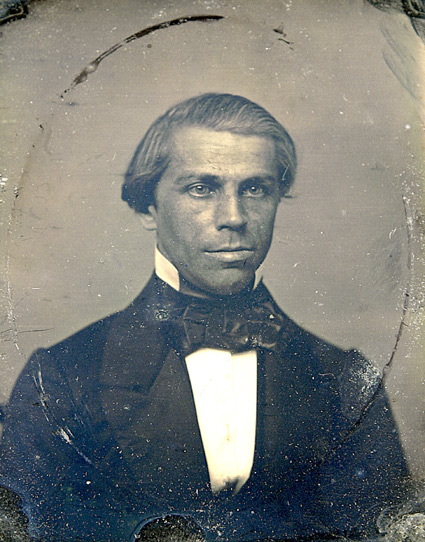 Half-Plate Daguerrotype of Yale Professor James Hadley. [New York? nd, ca. 1850]. Oval daguerreotype, 4 1/2 x 3 1/2 inches, in an attractive contemporary stamped gutta-percha frame, gilt, lined in red velvet.